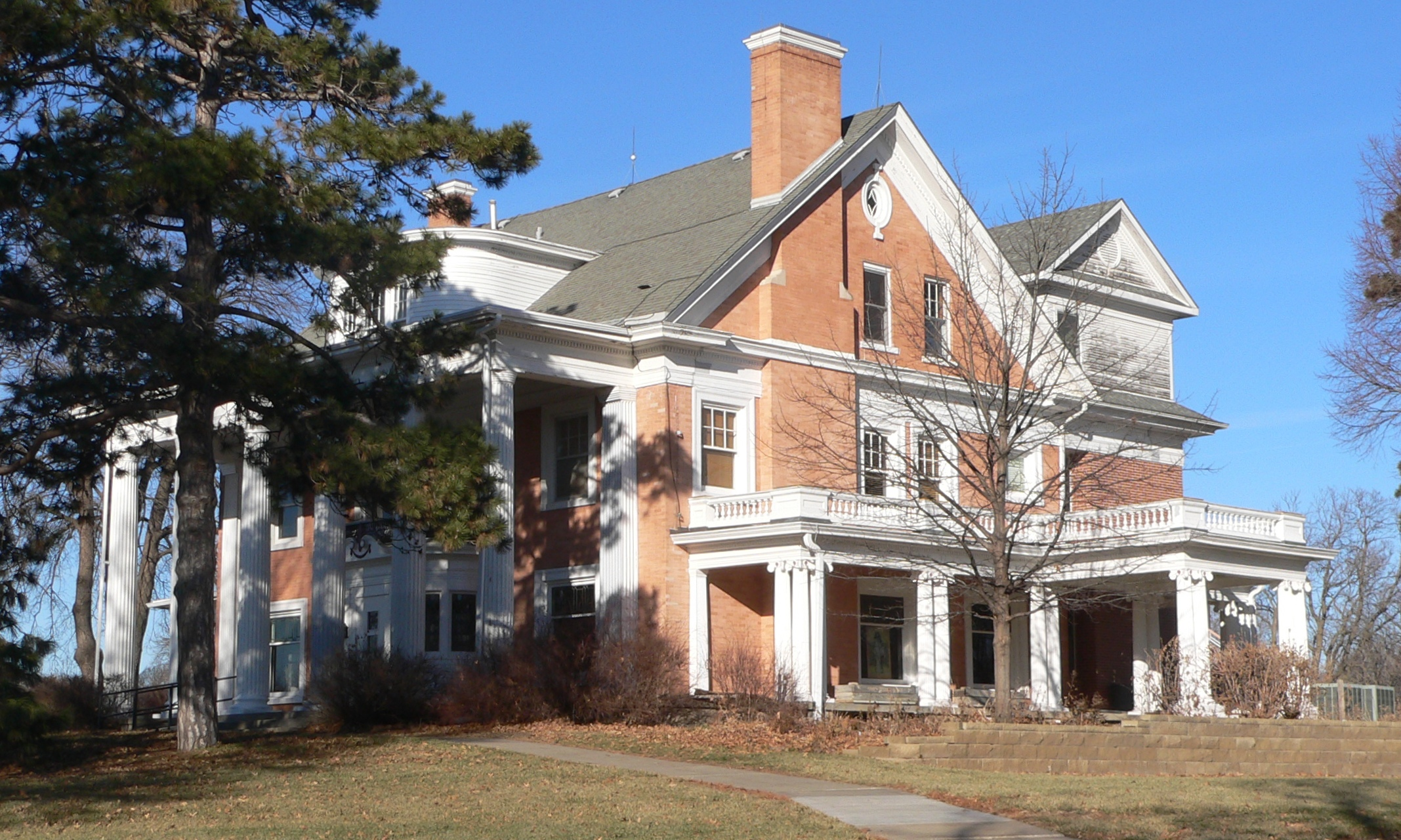 Whitehall, located at 5903 Walker Street in Lincoln, Nebraska; seen from the southeast.